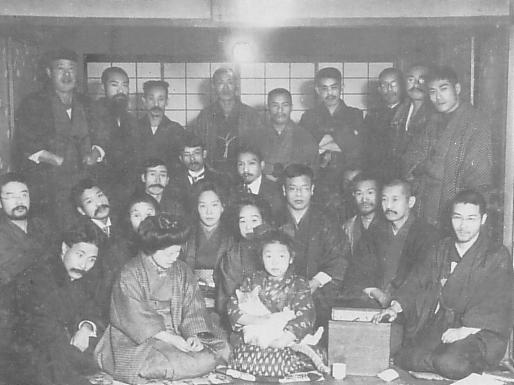 Baibunsha members